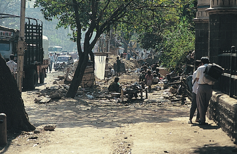 Street dwellers have taken over the entire pavement of this street in Mumbai (formerly Bombay), India.